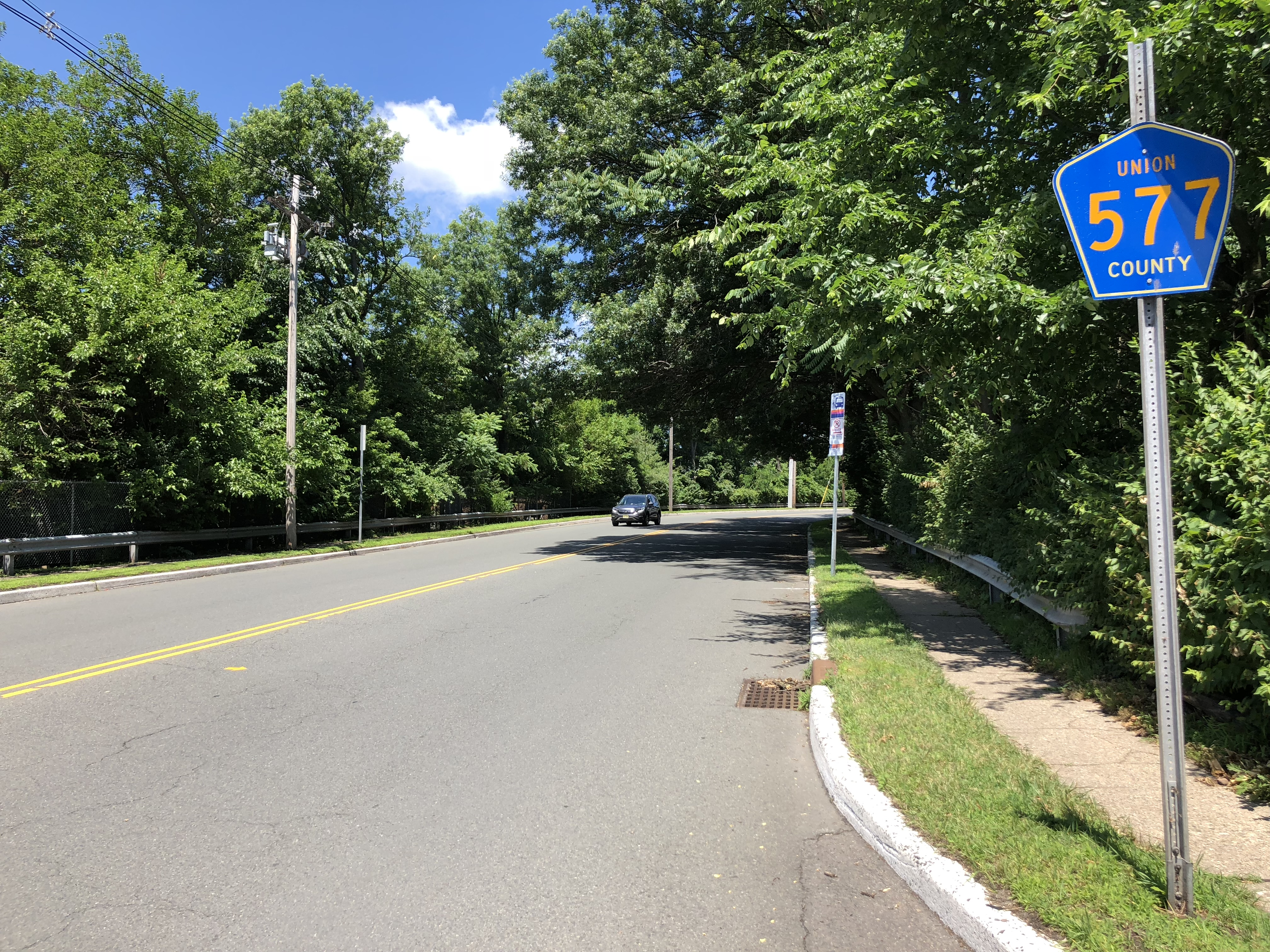 View north along Union County Route 577 (Main Street) at Edison Place in Springfield Township, Union County, New Jersey